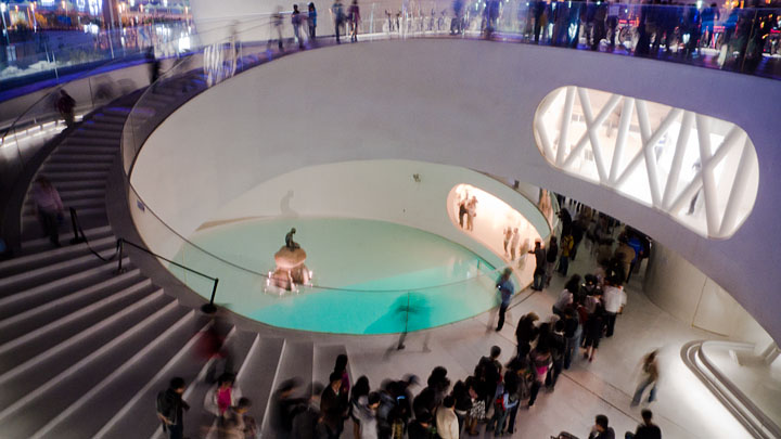 Denmark Pavilion of Expo 2010, Shanghai, Kina. This room exhibits the Little Mermaid, normally located in Copenhagen.